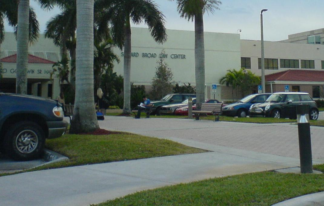 taken by user:Butnotthehippo